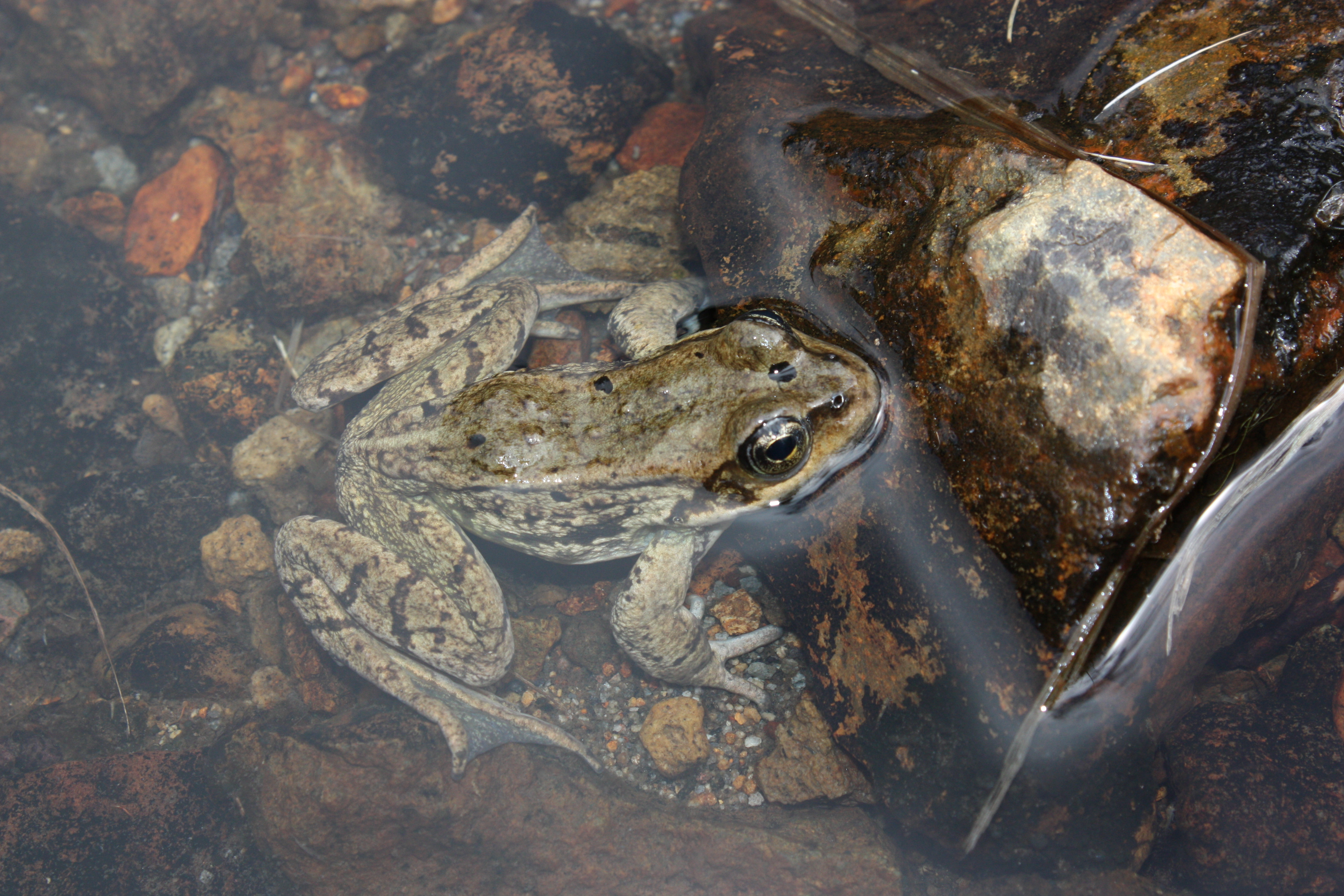 Cascades Frog